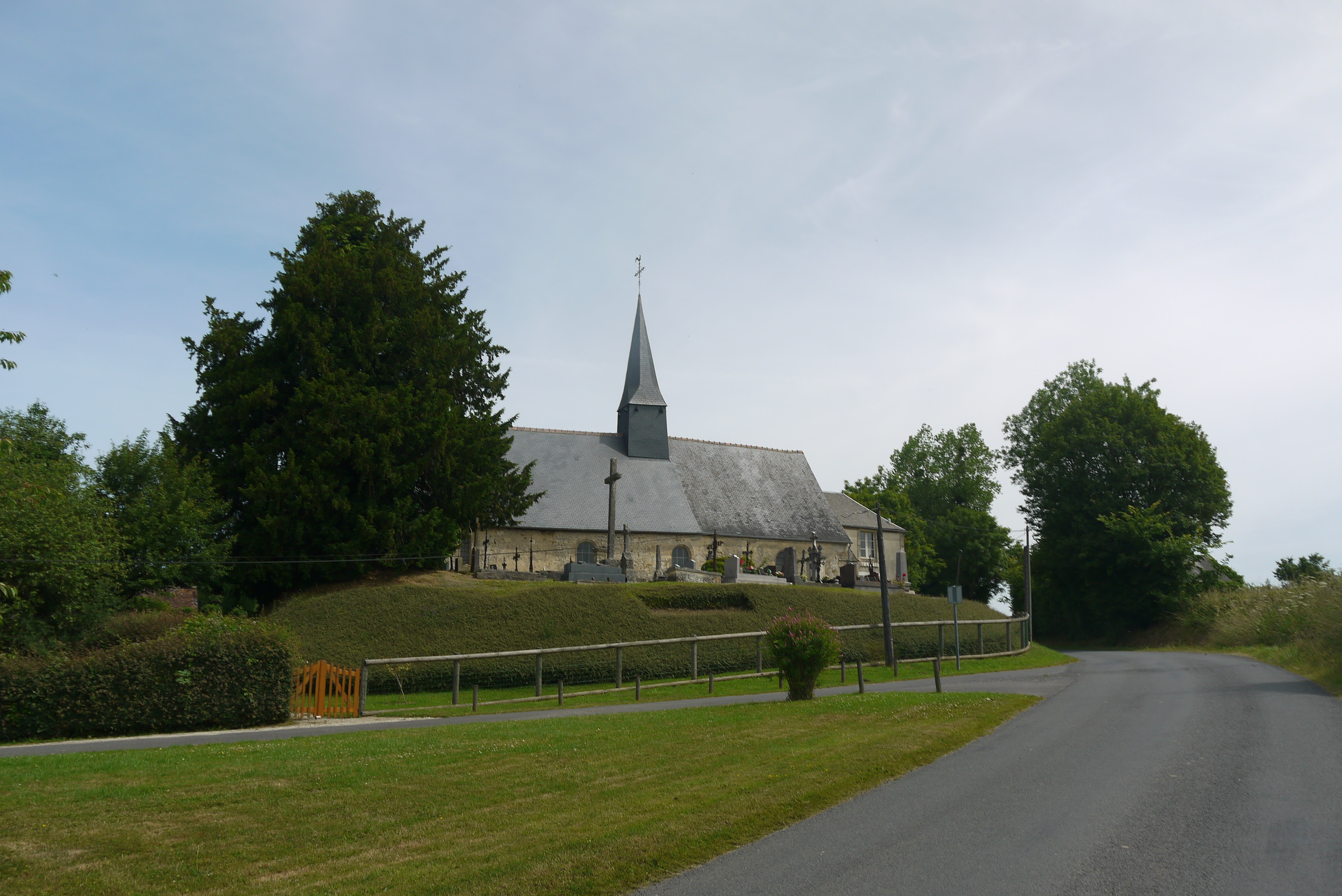 Center of ginai